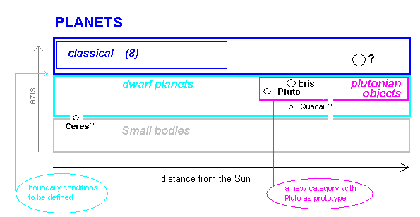 Definition of planet- final proposal